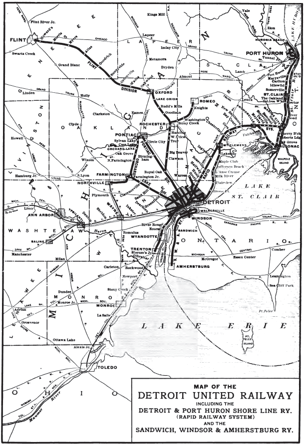 This is a map of the Detroit United Railway network from 1904. It is taken from the McGraw Electric Railway Manual of the same year.